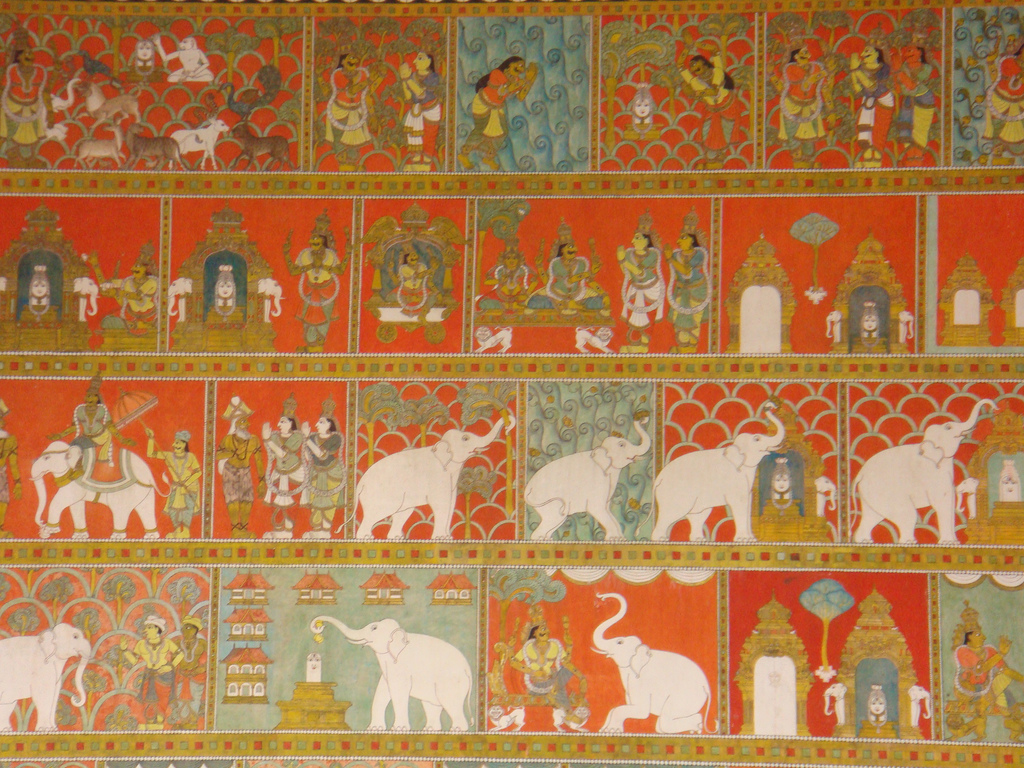 17th century Wall paintings in the Madurai Meenakshi Temple depicting the founding legend of the temple.